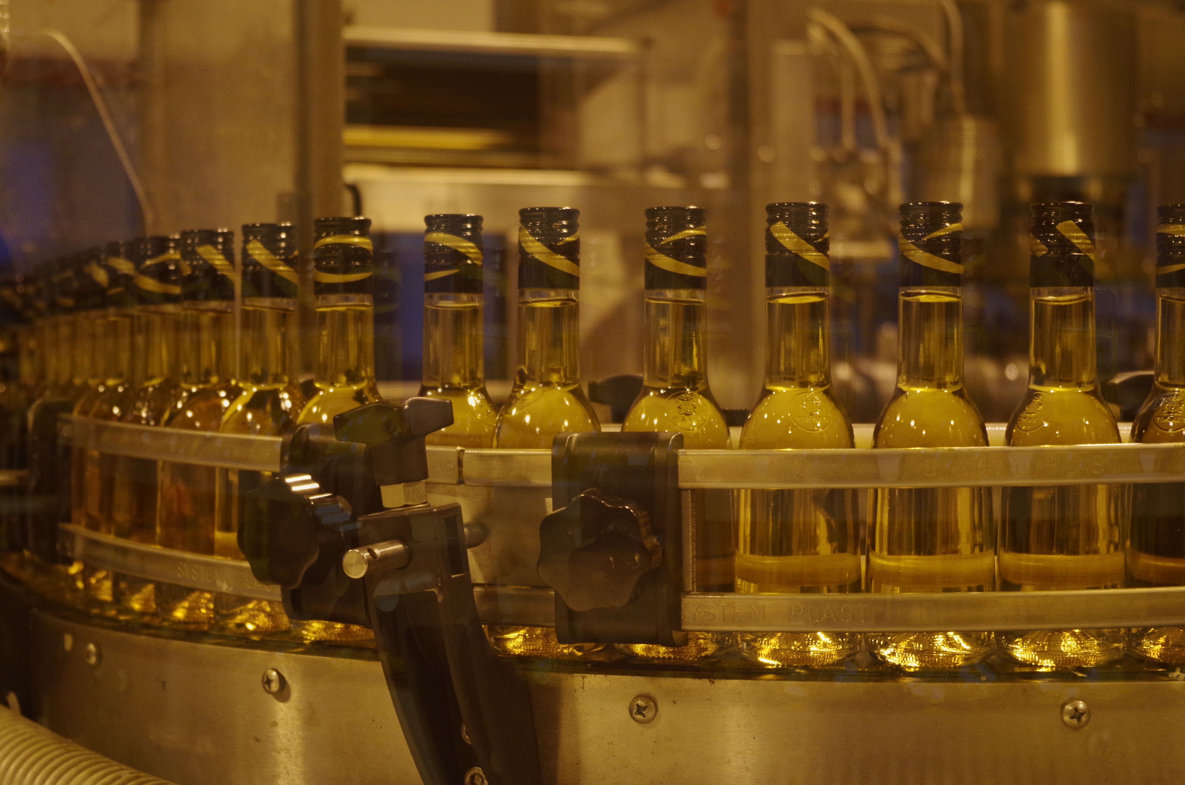 Production of Rakija in Tikvesh Winery